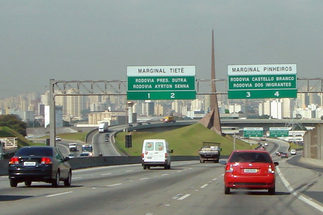 Beginning of Rodovia Bandeirantes at Marginal Tietê/Pinheiros, São Paulo City, Brazil, approaching from Campinas